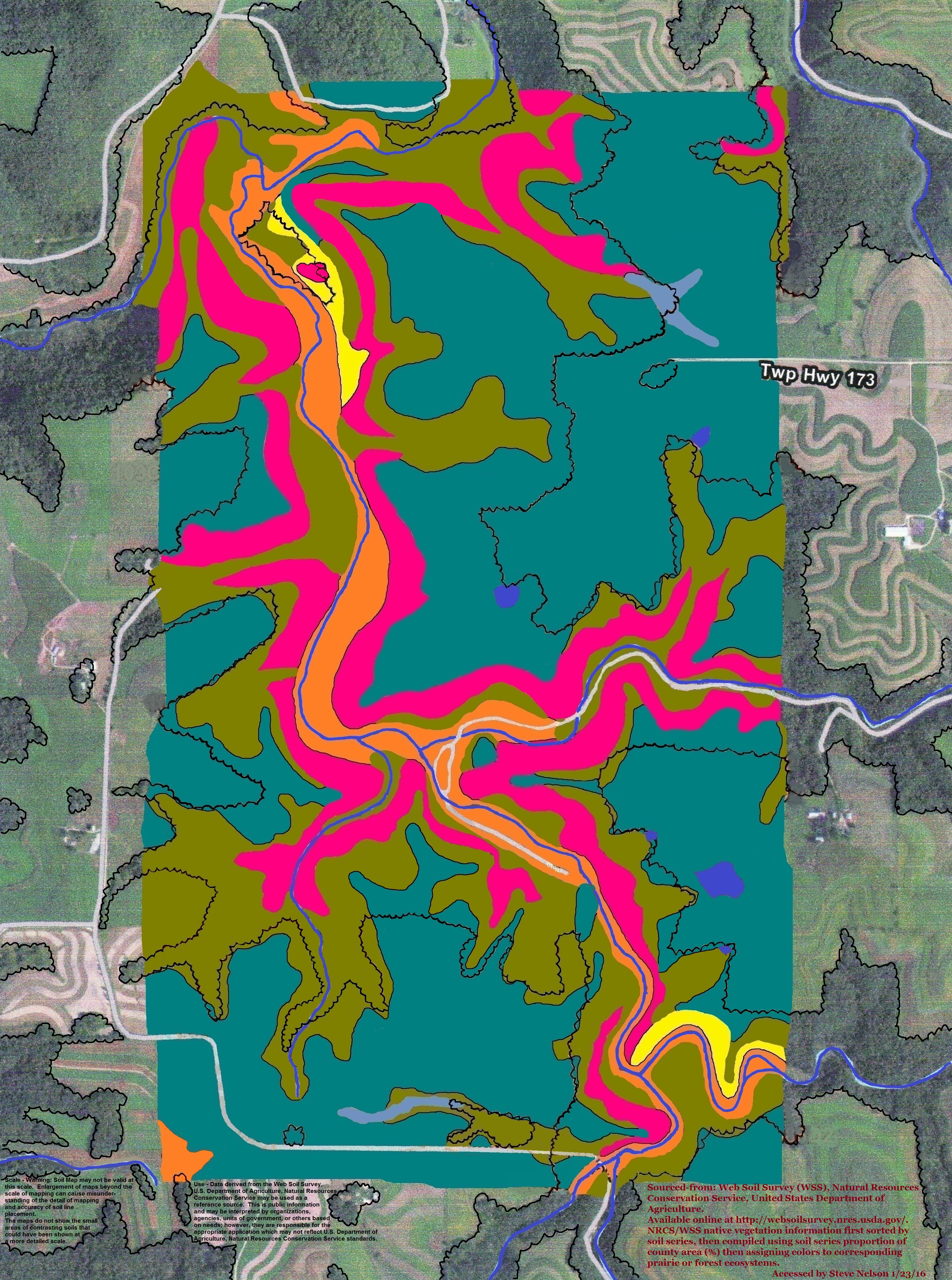 Map shows native vegetation of the area in and around Beaver Creek Valley State Park in Houston County Minnesota.